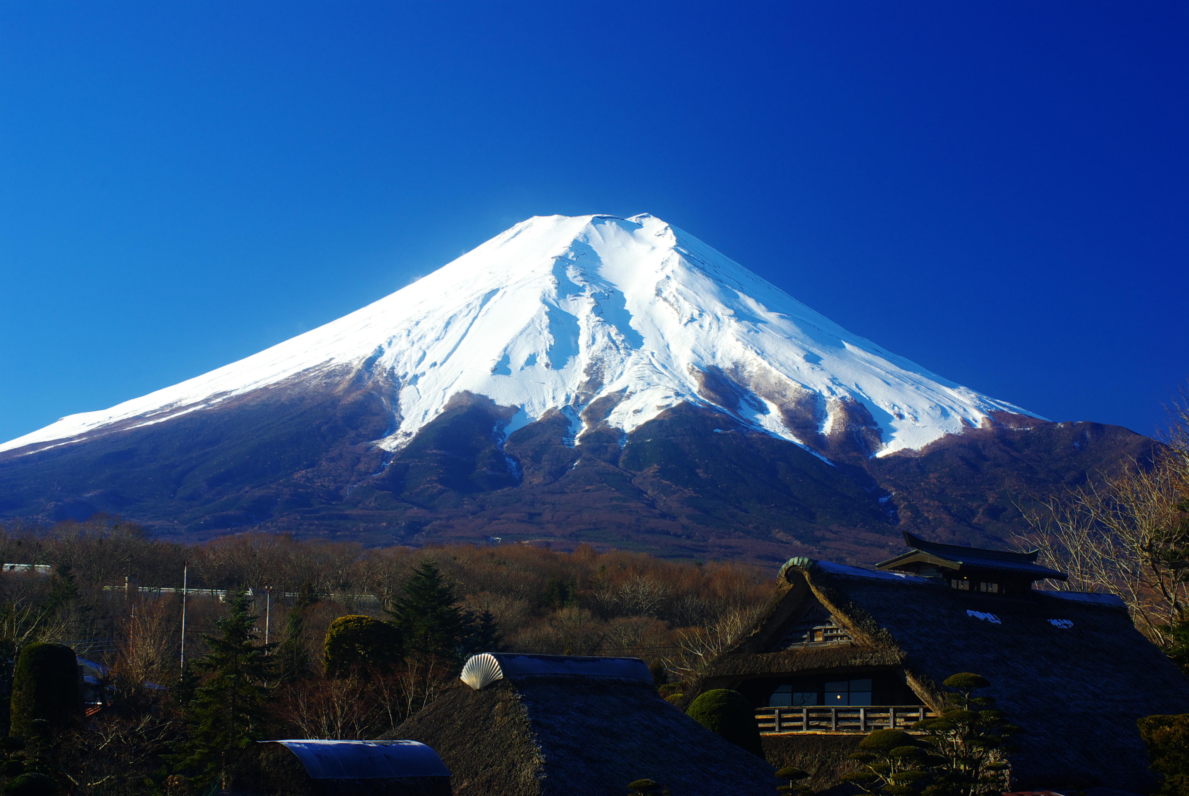 Mt. Fuji of winter that seen from Oshino Hakkai.